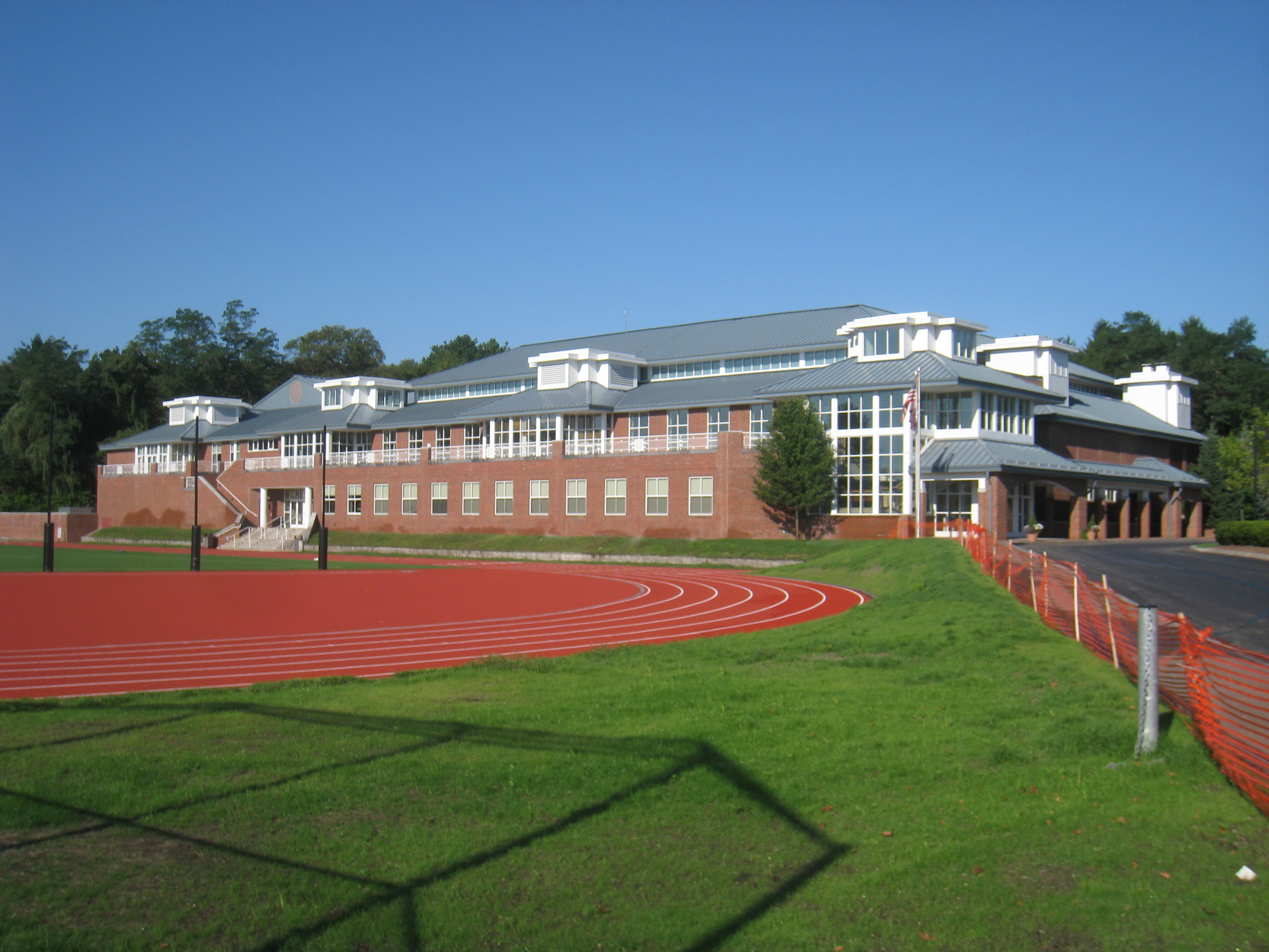 Belmont Hill School, Belmont, Massachusetts, USA.